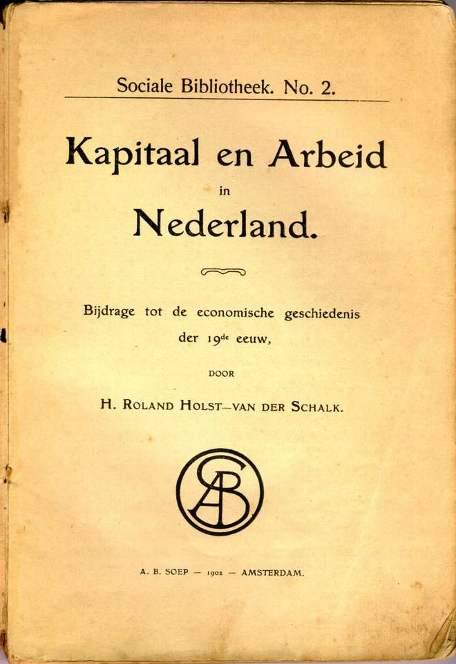 title page of first edition of Kapitaal en Arbeid in Nederland by Henriette Roland Holst; Publ. A.B. Soep, Amsterdam 1902